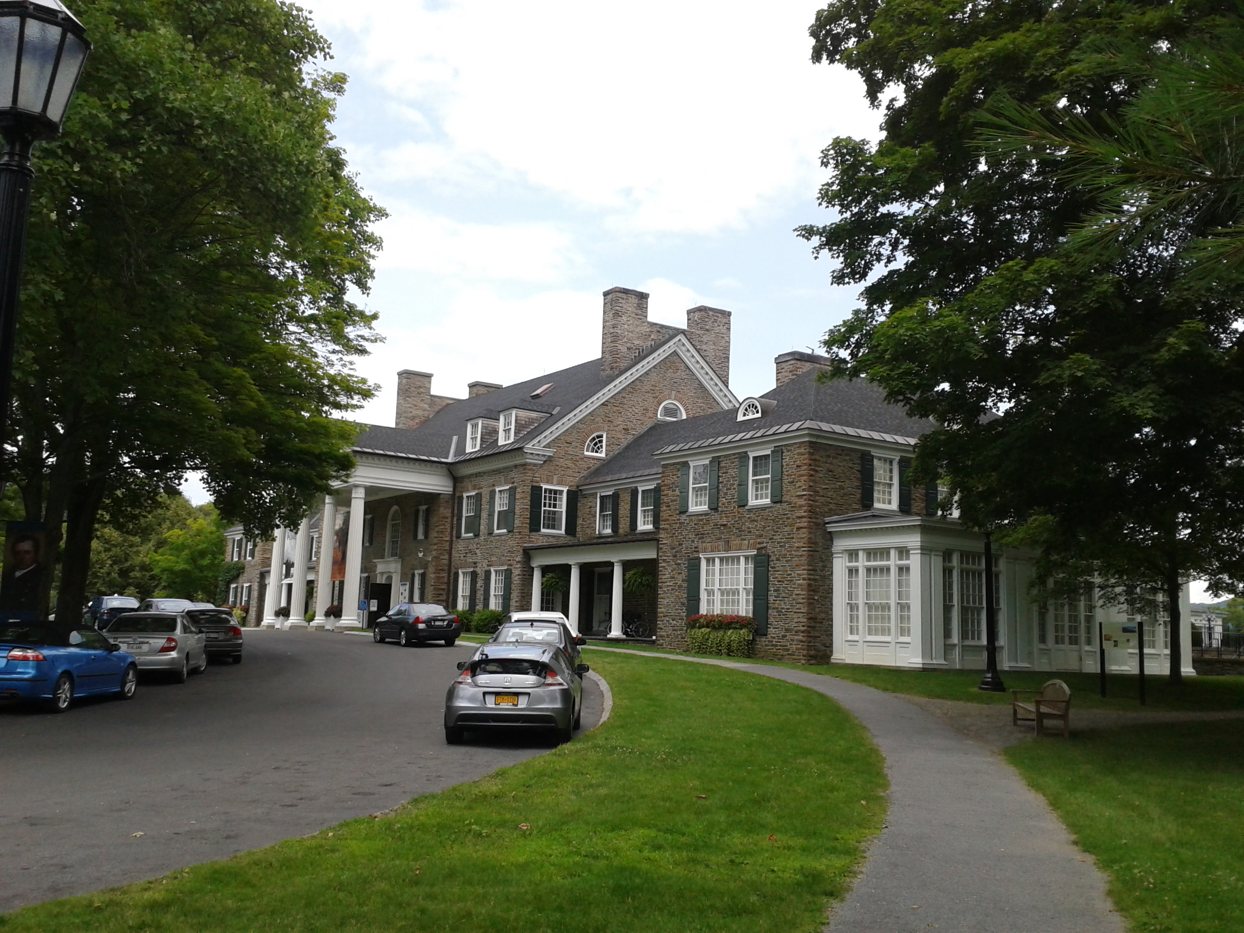 Front elevation of the Fenimore Art Museum in Cooperstown, New York